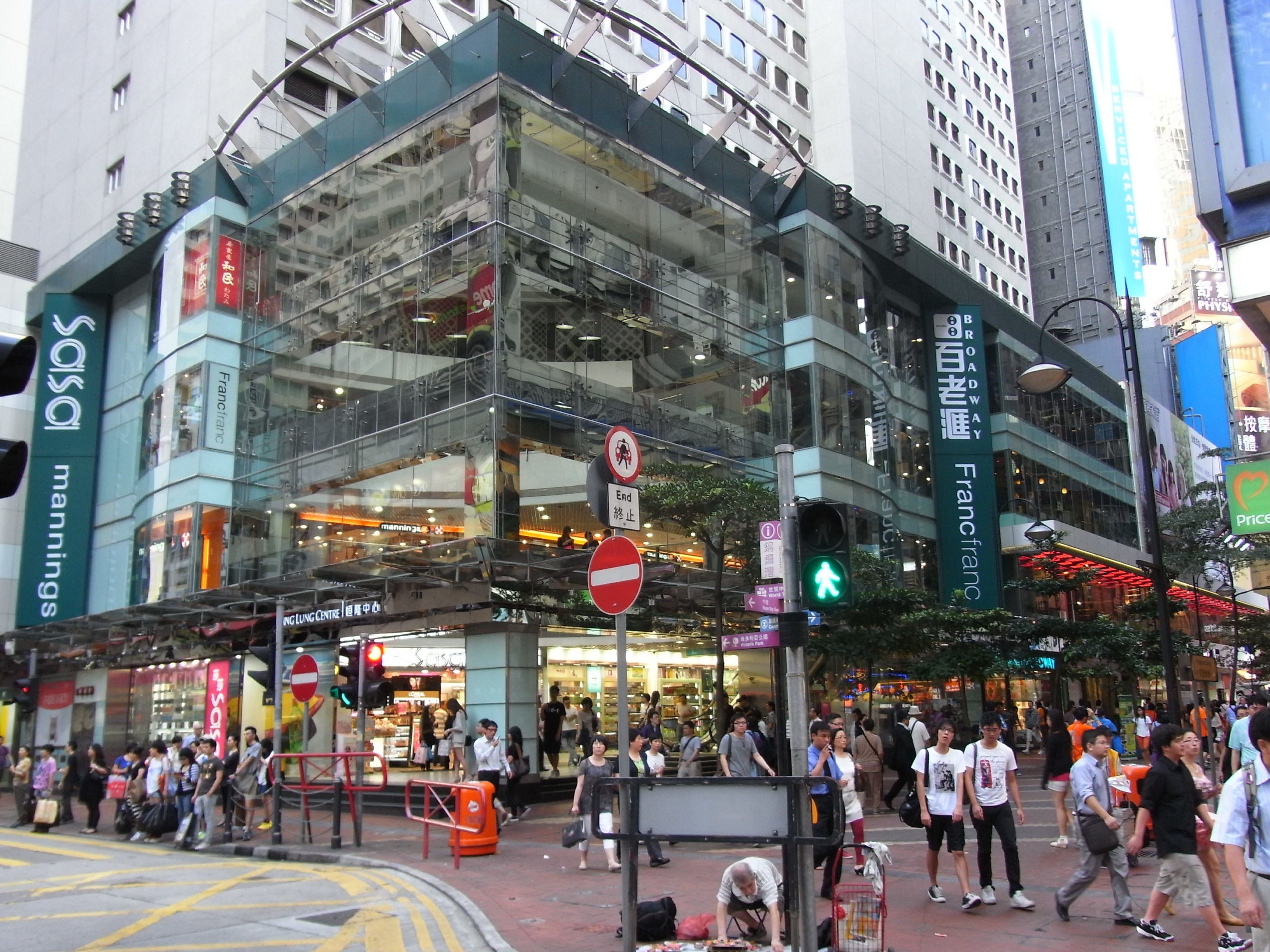 銅鑼灣 記利佐治街, Great George Street, Causeway Bay, Hong Kong